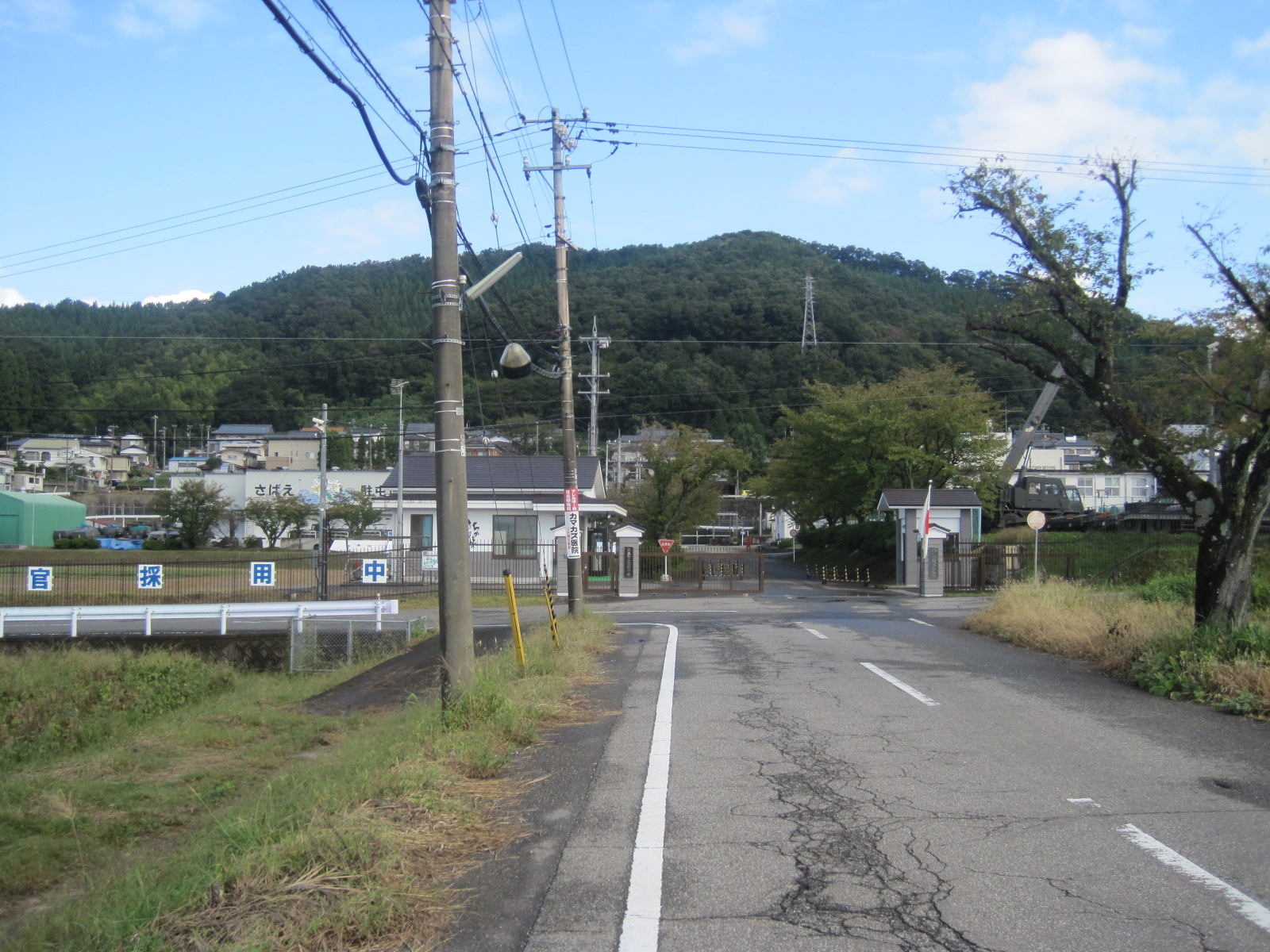 Sabae Garrison of JGSDF(Sabae city, Fukui prefecture)